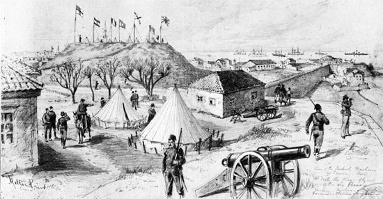 Turkish army in Chania, and a hill with the flags of the Protecting Powers